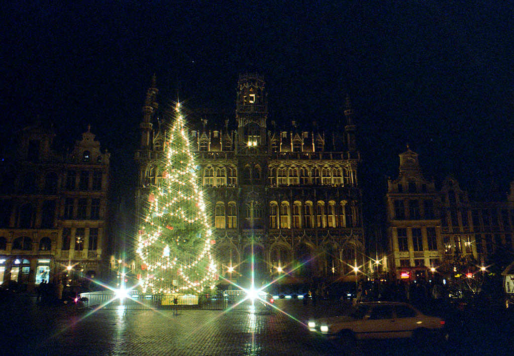 Brussels,GrandPlace at Xmas 1979